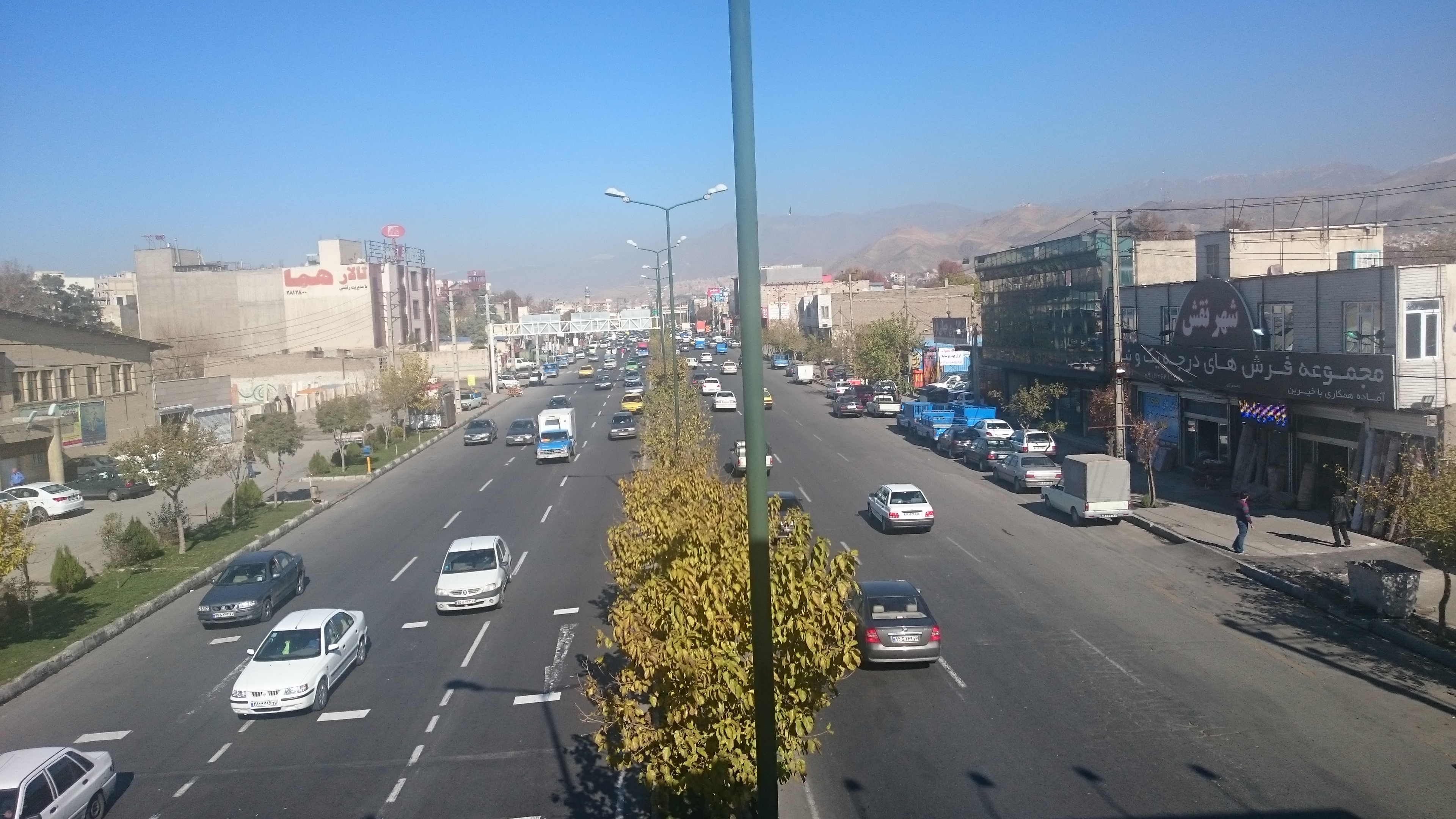 Malard road